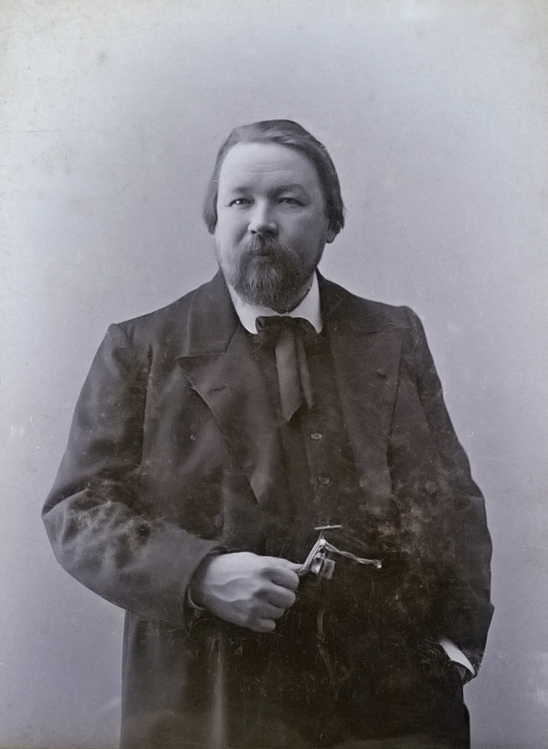 Mikhail Ippolitov-Ivanov